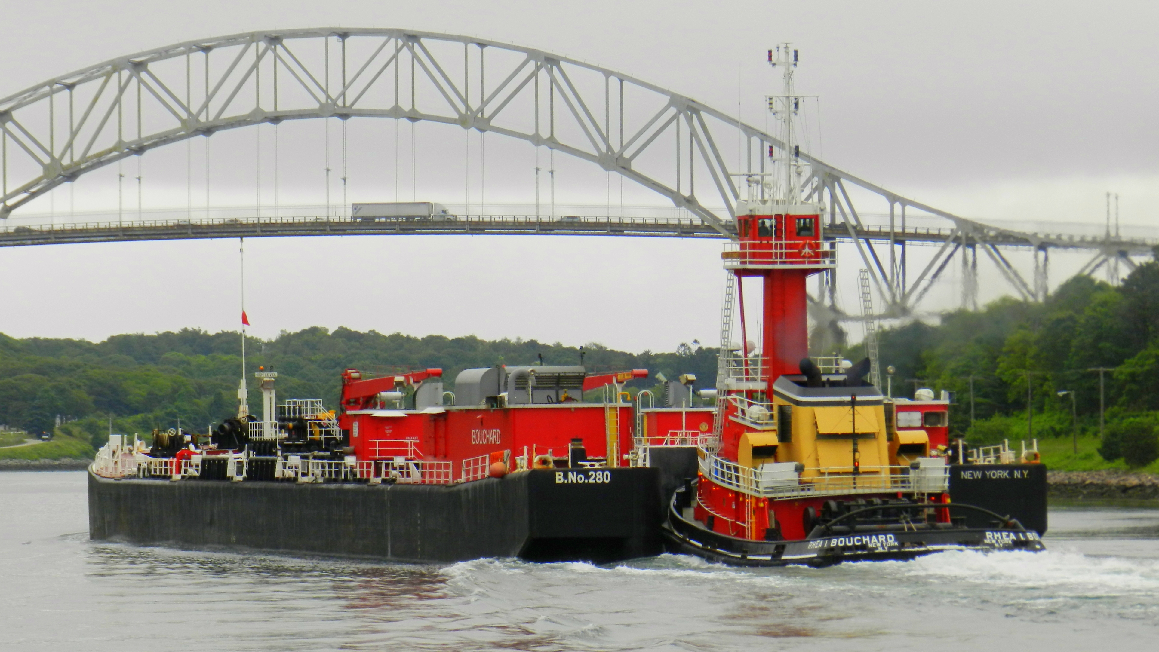 An Oil Barge crosses the Cape Cod Canal northbound